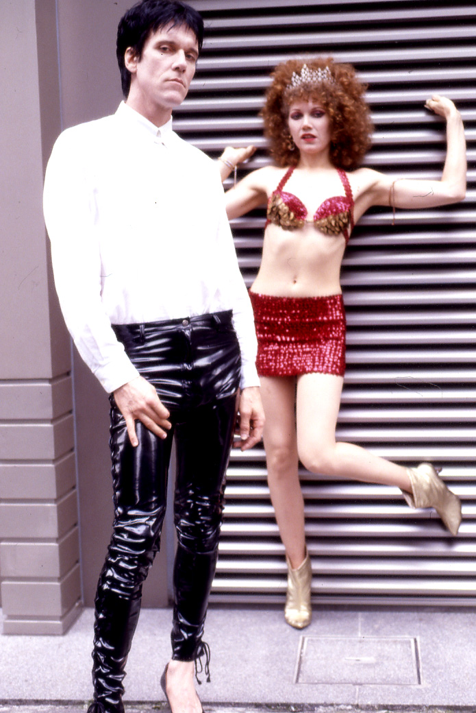 R.I.P. Lux... this photo took in 1992 Tokyo, Japan